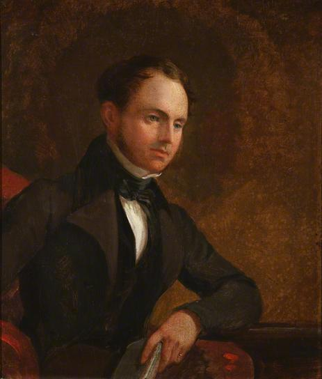 Portrait study of Edward Bolton King, M.P. in the reformed parliament of 1832